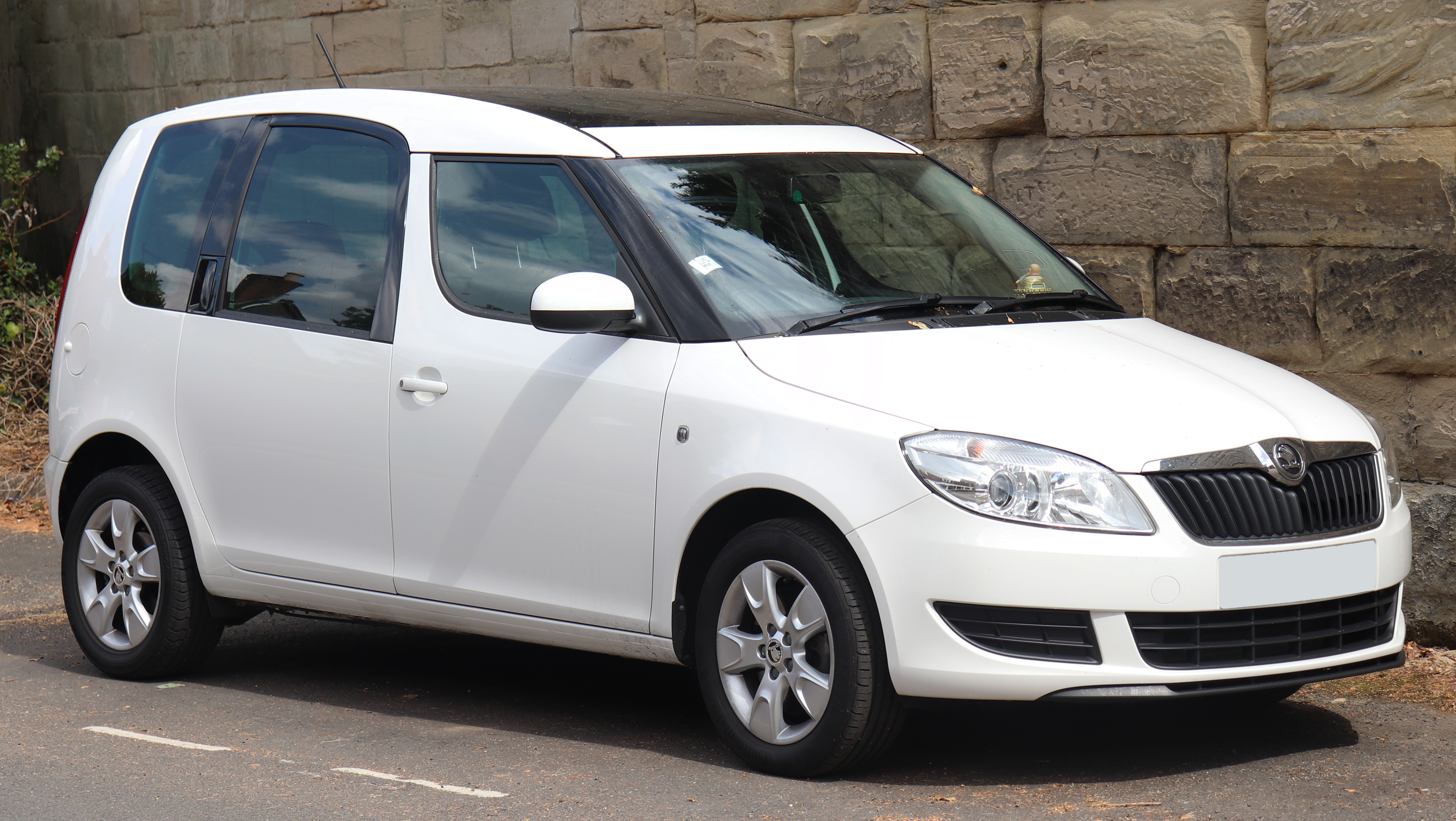 2014 Skoda Roomster SE TDi CR 1.6 Front Taken in Warwick